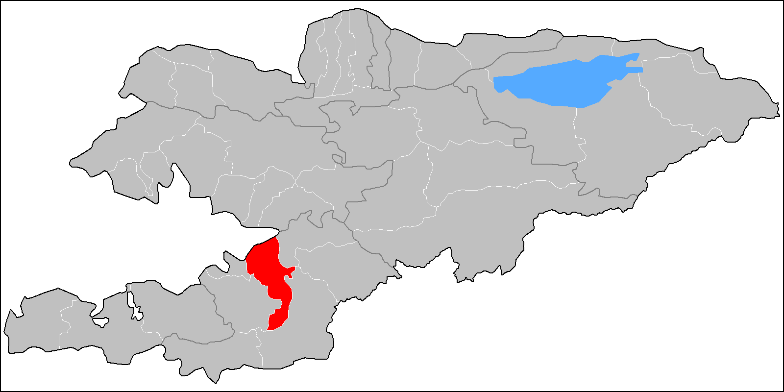 The location of the raion (district) of Kara-Suu in Kyrgyzstan. Based on Image:Kyrgyzstan raions.png